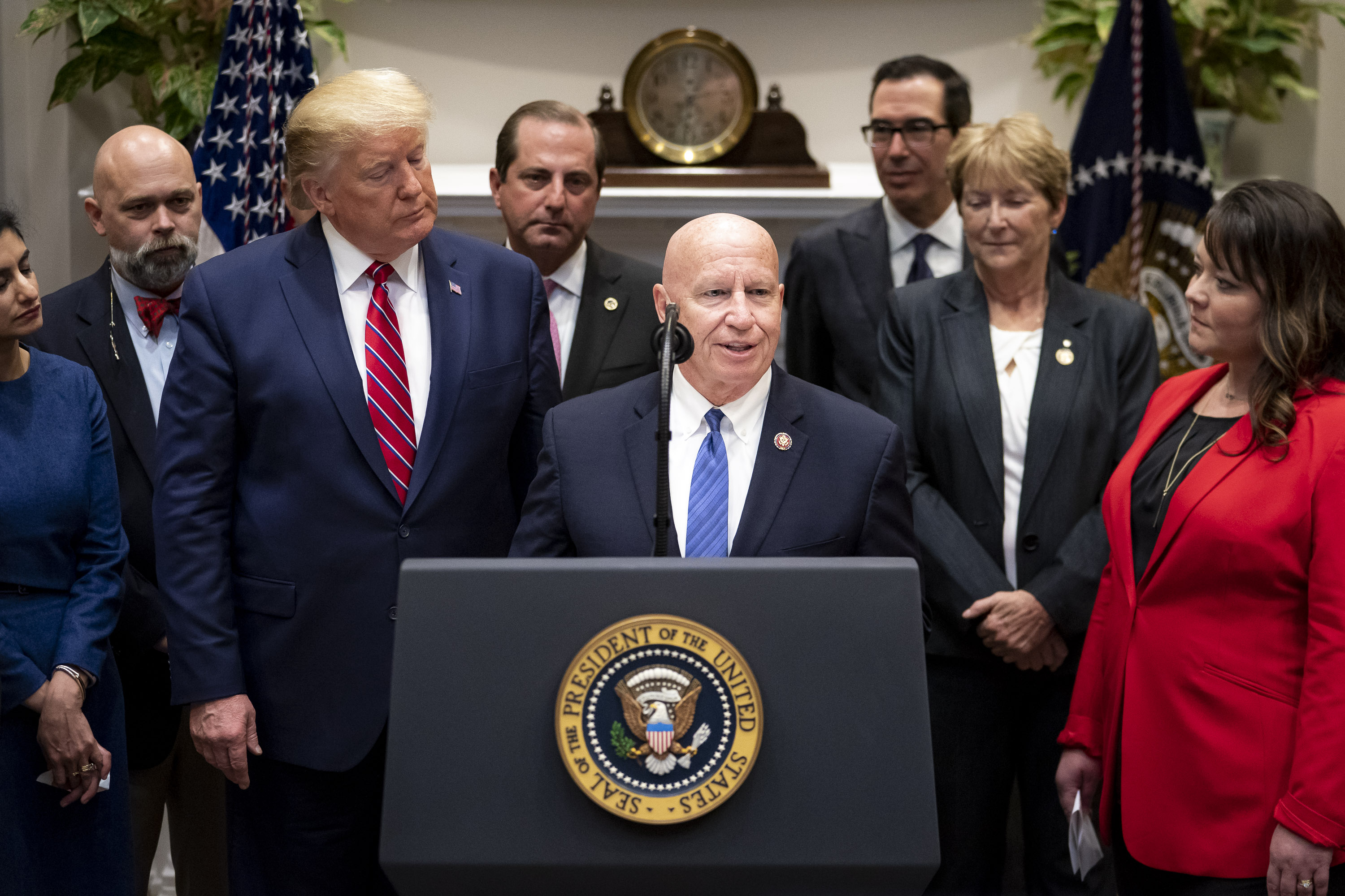 President Donald J. Trump listens as Rep. Kevin Brady, R- Texas, addresses his remarks during the Honesty and Transparency in Healthcare Prices meeting Friday, Nov. 15, 2019, in the Roosevelt Room of the White House. (Official White House Photo by Tia Dufour)